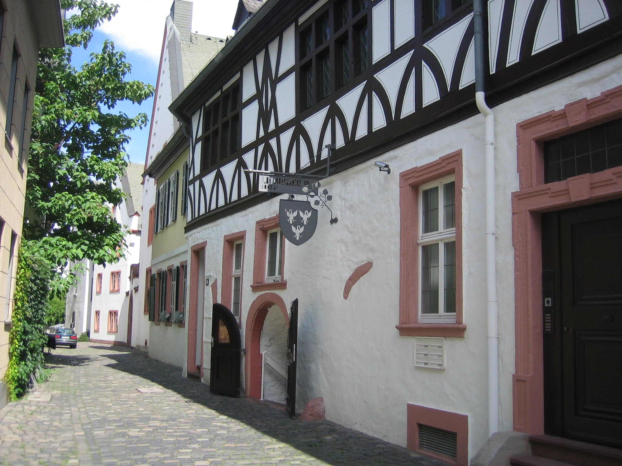 Leininger Hof in Mainz